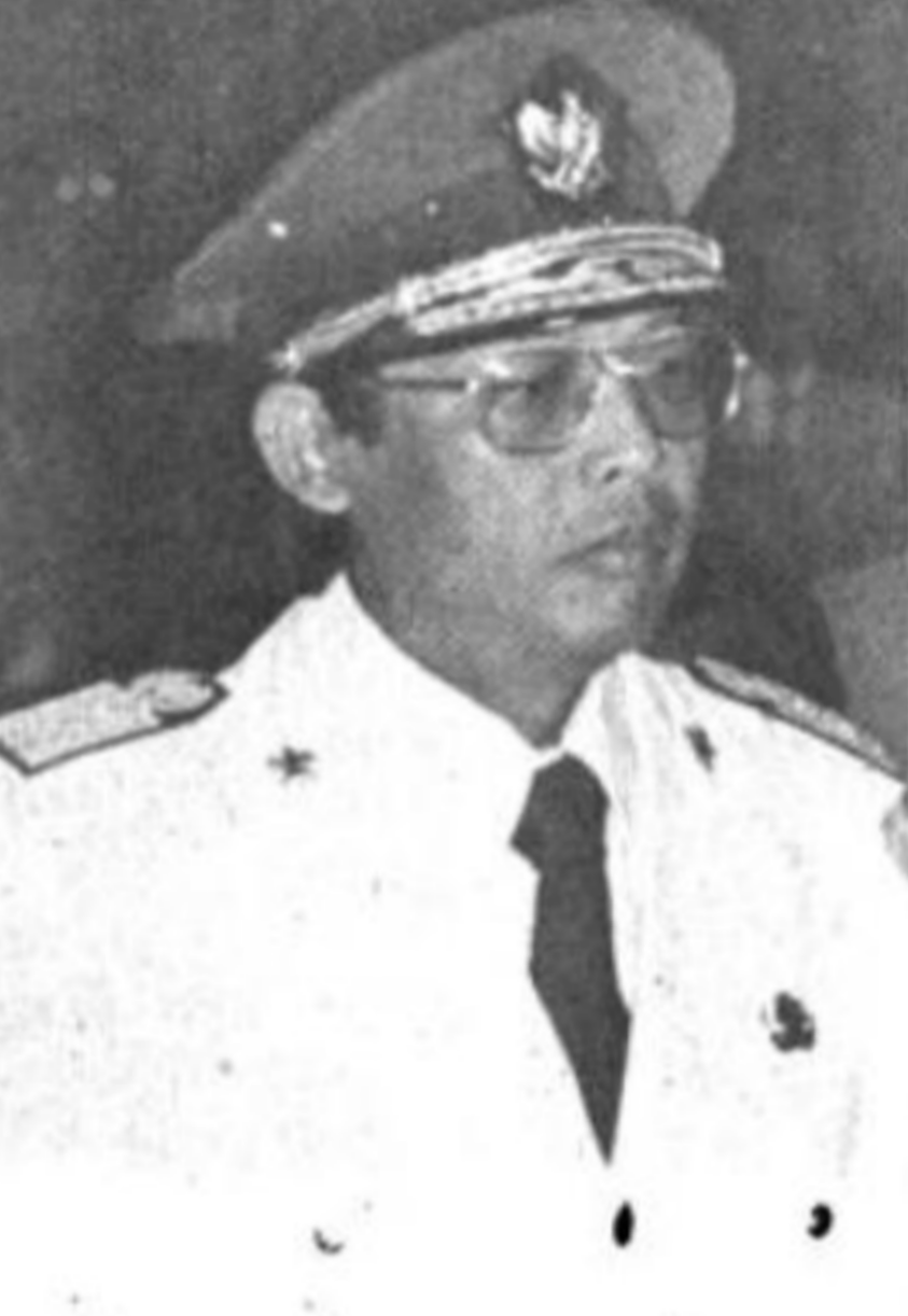 Portrait of Soehoed Warnaen Poeraatmadja as Deputy Governor of West Java